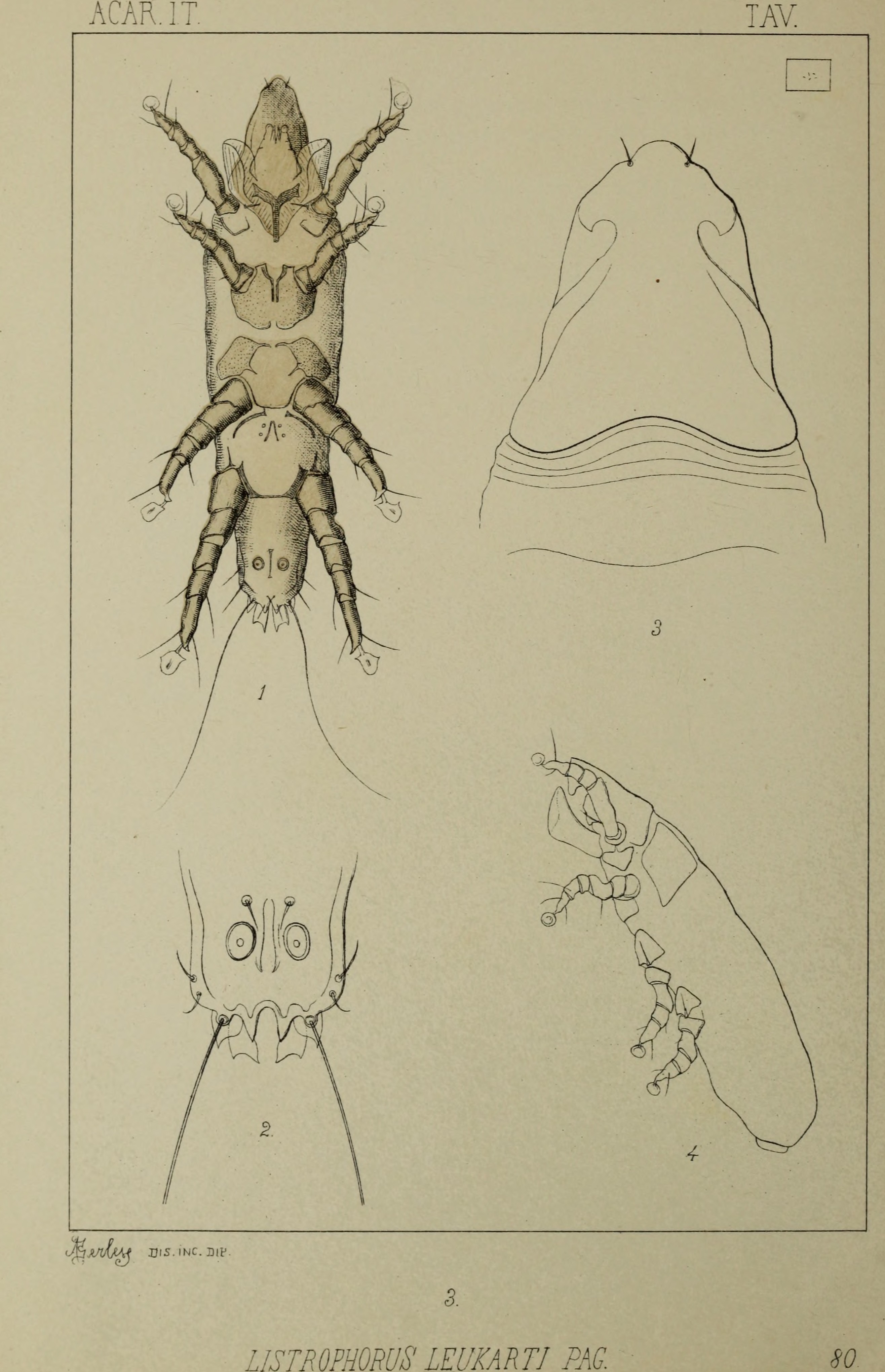 Title: Acari, Myriopoda et Scorpiones hucusque in Italia reperta Year: 1882 (1880s) Authors: Berlese, Antonio, 1863-1927 Canestrini, Giovanni, 1835-1900 Silvesri, Philippo Subjects: Mites Arachnida Myriapoda Publisher: Patavii, Sumptibus Auctoris Text Appearing Before Image: exiles, secundi paris omnibus mincres, brevissimi etexiliimi ; tertii quartique paris ceteris crassiusculised curtiores. F o e m i n a (2) elongata, postice truncata, utrinquecurte tripila ; pedibus quarti paris minimis, intersesevalde appressis, epimeris destitutis. Ex exemplis a Cl. Trouessartio ccllectis et me-cum benignissime ccmmunicatis. Text Appearing After Image: Fasc. LXXX, N. 3. Listrophorus Leukarti Pag. Pagenstecker in Zeitschr. f. wiss. Zool. vcl. XI- 1861. Megnin, Les parasites; p. i56. L pallidus, pedibus, scutulo thoracico et epistomate te-staceo-fuscescentibus; elongatus. Mas postice attenuatus,incisus, loCidis laminulis chitineis dentatis terminatis. Masad 450 (x, foem. ad 400 p- Jong. Habitat, super ArvicoJam amphibium. Obs. Ccrpus valde elongatum ; epimera secundiparis bene in Y concreta (ergo frustulus iugularisnullus). Epistoma (3) subtrigonum, apice obtusum, cur-tissime bipilum. Scutum thcracicum dcrsuale ab epi-stomate distinctum, transverse striatum. Derma ce-terum striatum, striis precipue in parte abdcminispcstica spinulis seriatis significatis. Mas (1) elcngatissimus, certe quintuplo longicrquam latus, tamen humeratulus, pcstice acutus; in-cisus. Lobuli (2) abdcminis in dentem producti etlaminulis duabus chitineis hyalinis, ex quibus interiorbidentula, exterior unidentata, nec non setulis tribus,intericr longior, extericres